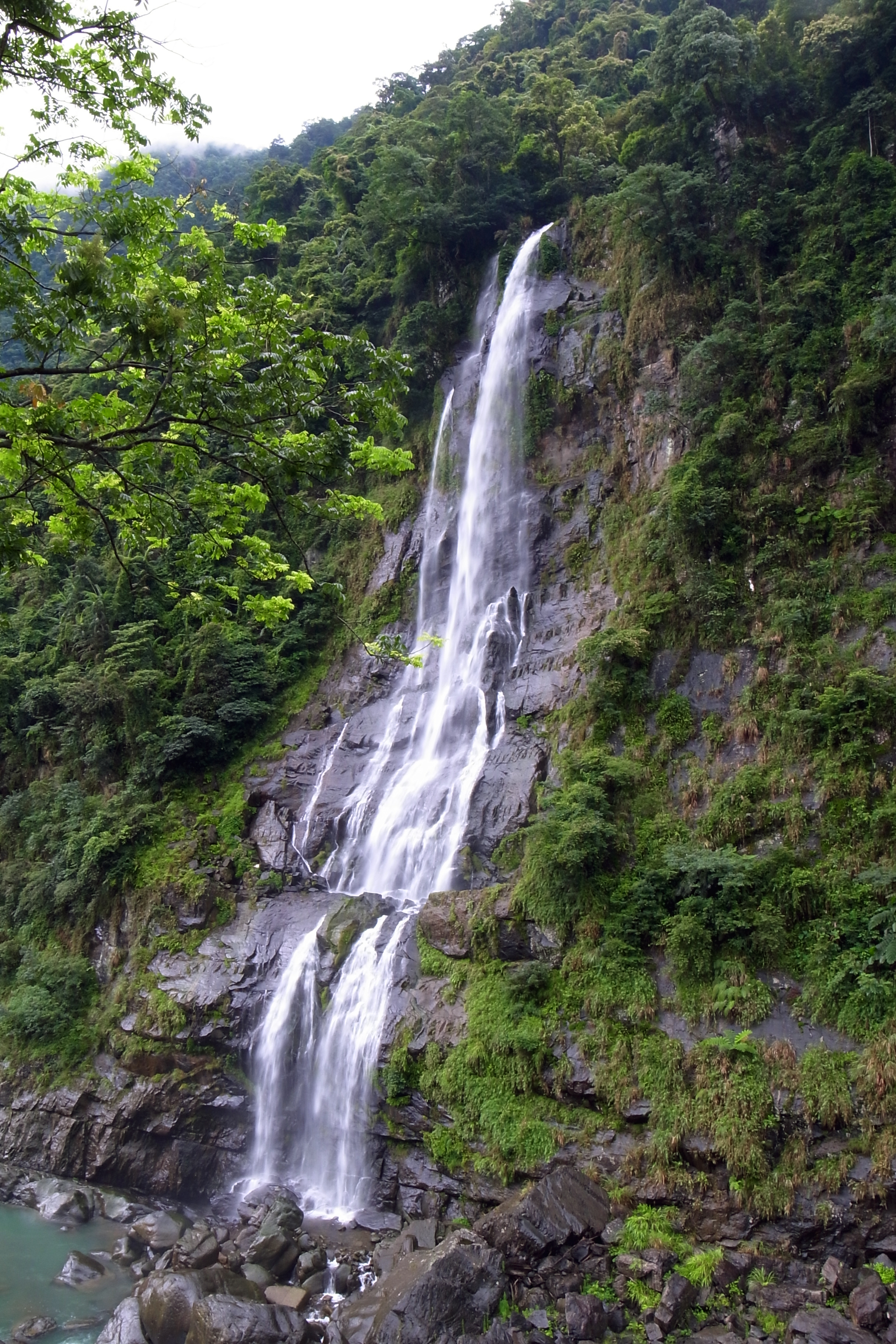 Photo of Wulai Waterfall (烏來瀑布), Wulai Township, Taipei County, Taiwan.中文（台灣）: 烏來瀑布（於臺灣之臺北縣烏來鄉）